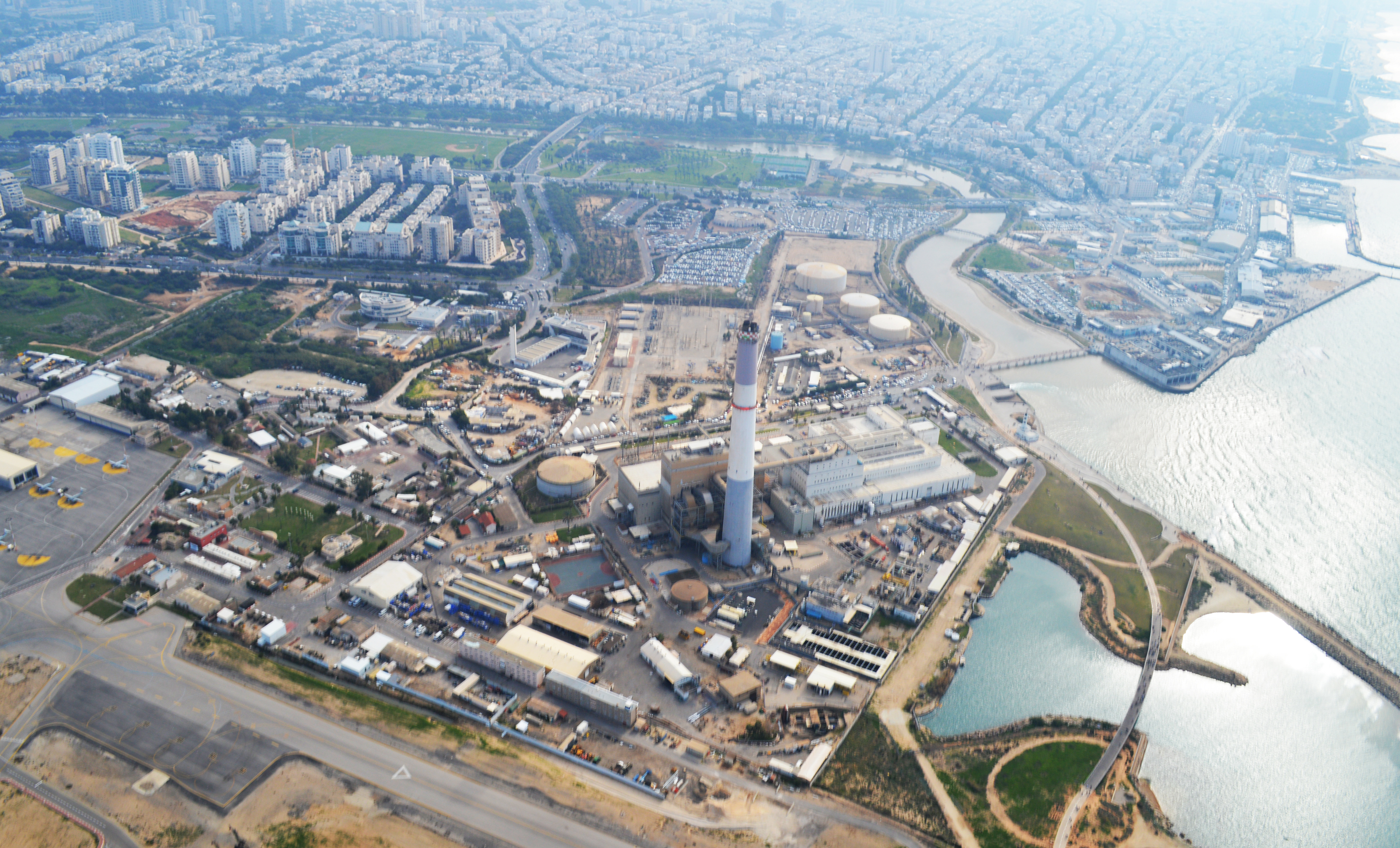 Reading Power Station Aerial View